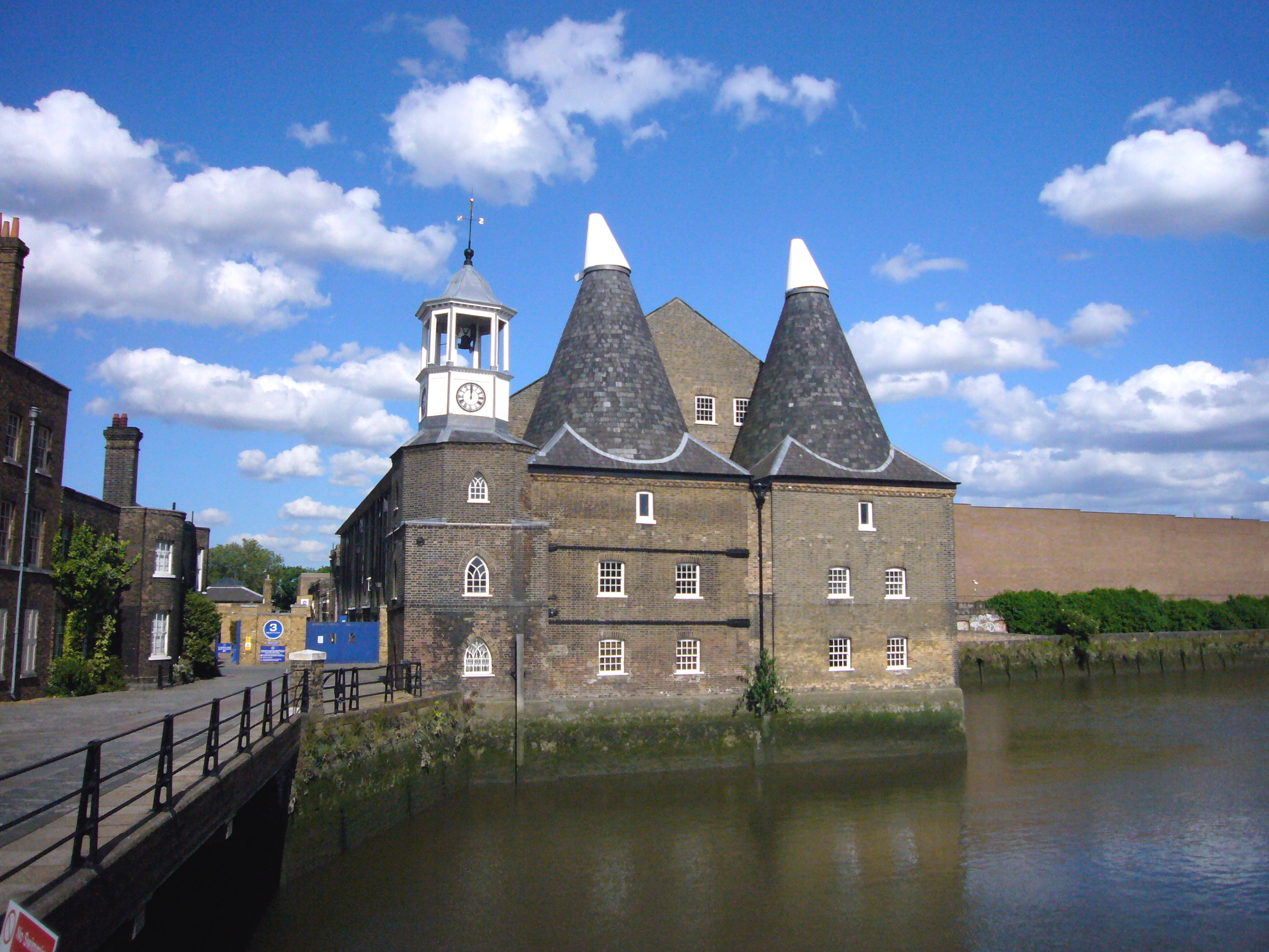 The Clock Mill at Three Mills (Three Mill Lane) London, UK.